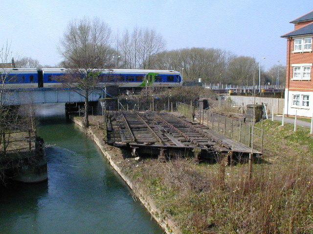 Oxford - LNWR Swing Bridge. The London & North Western Railway entered its Rewley Road station in Oxford over a hand operated swing bridge which still rusts away amidst new housing on the Sheepwash Channel.